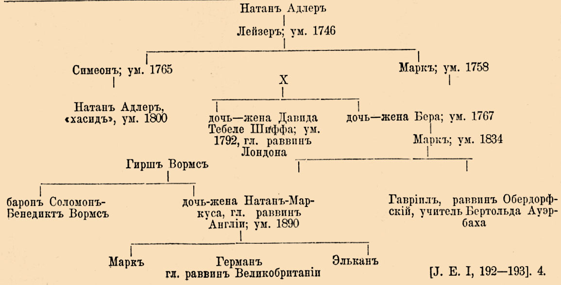 Illustration from Brockhaus and Efron Jewish Encyclopedia (1906—1913)